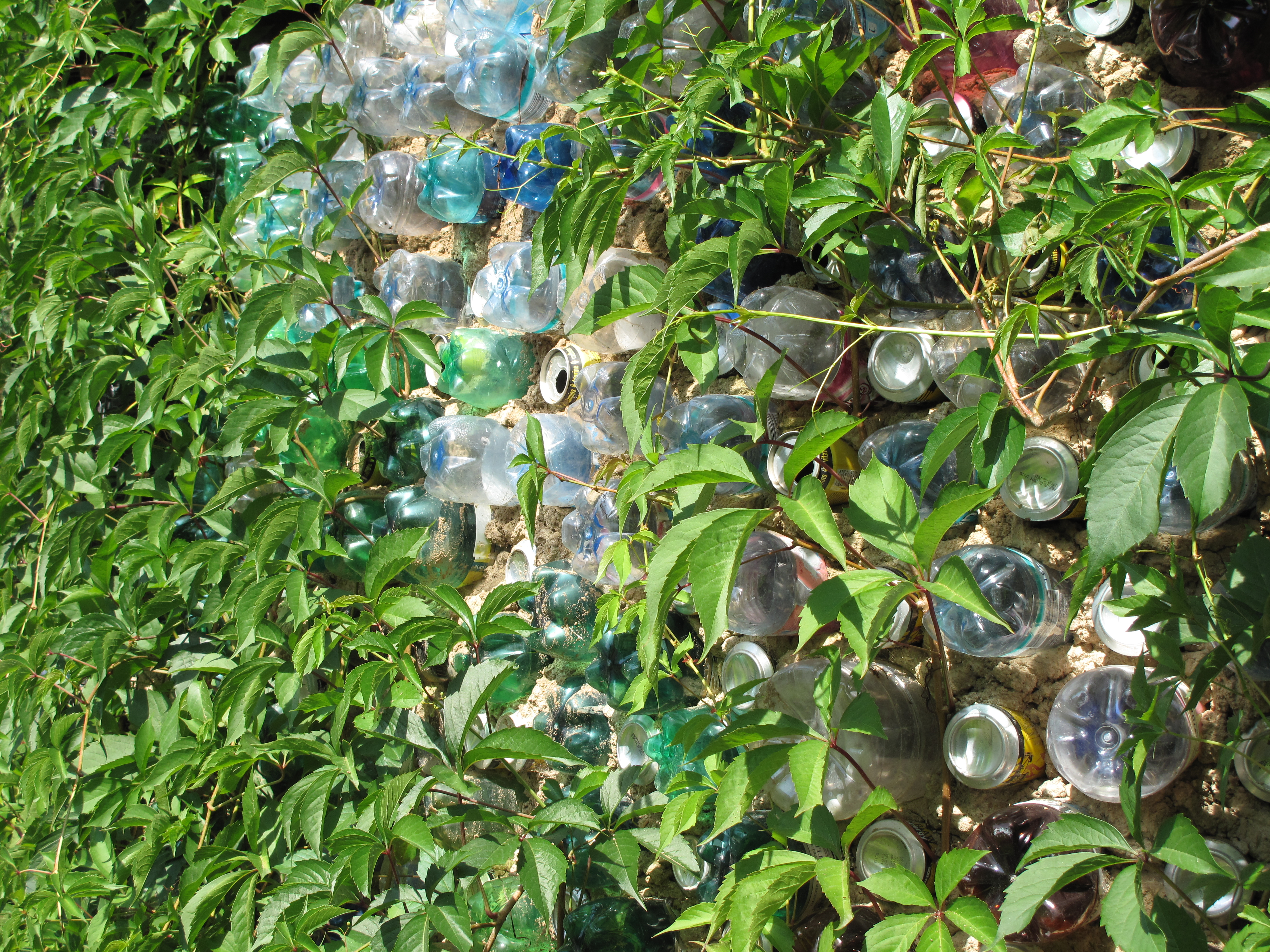 Wall from bottles in Křivá Ves village, Prague-East District, Czech Republic.